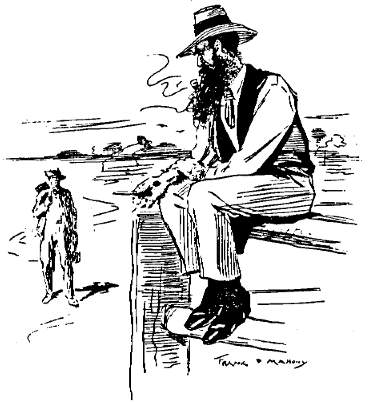 Illustration 1 taken from original publication of "Saltbush Bill's Second Fight"